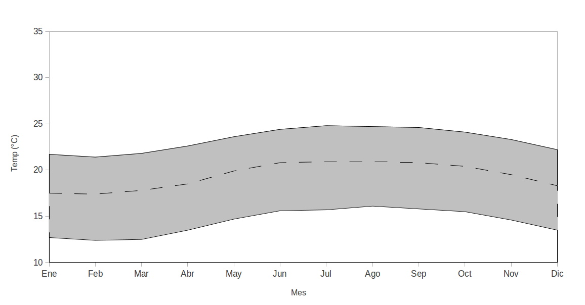 Graph of the range and average (dotted line) of minimum temperatures in Puerto Rico